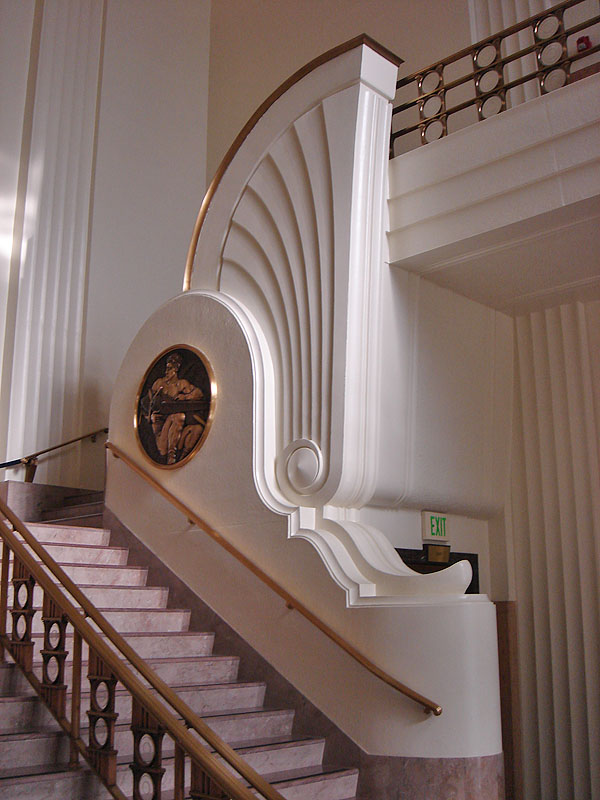 Art Deco style staircase and reliefs in the rotunda of the Burbank City Hall. • A 1943 civic building in Burbank, California.